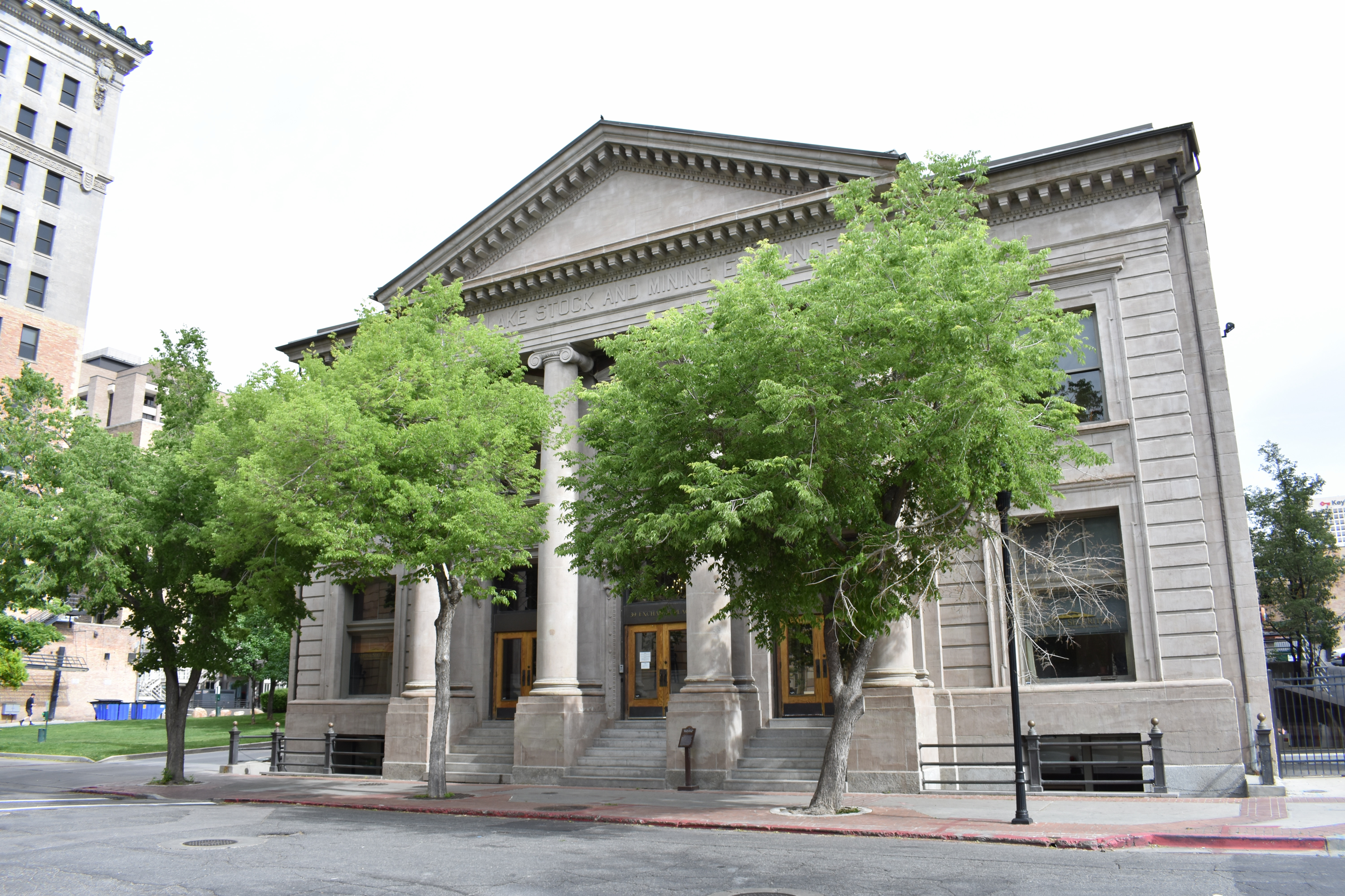 The Salt Lake Stock and Mining Exchange Building (1908) is a contributing resource in the Exchange Place Historic District.